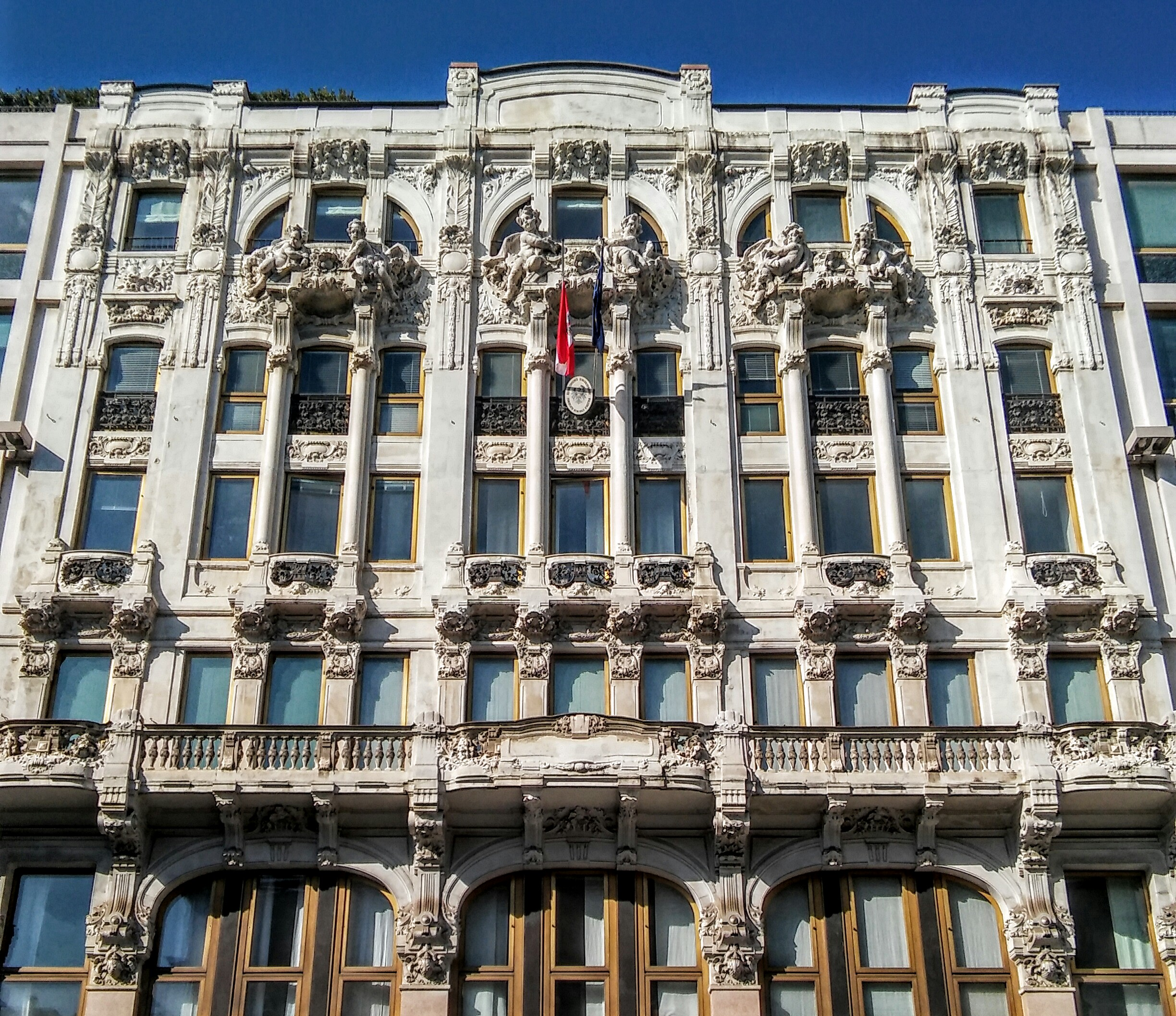 Facade of the ex Trianon Palace, Milan